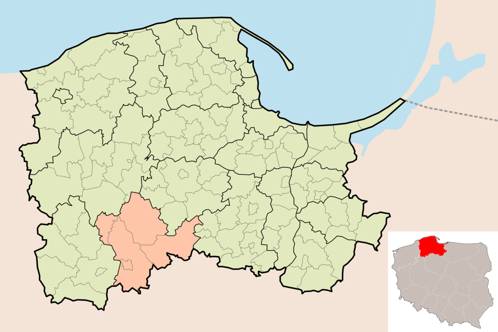 Locator map for communes (gmina) in pomorskie, with powiat highlighted Map - PL - powiat chojnicki.PNG